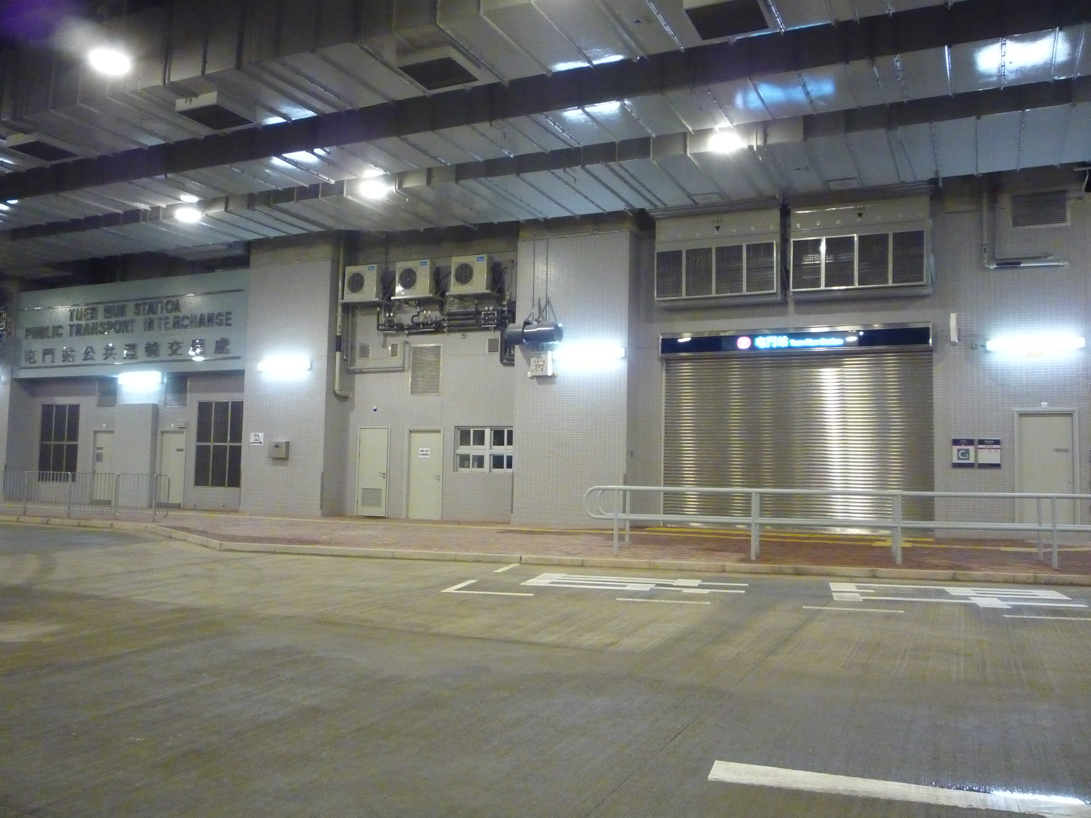 Tuen Mun Station Public Transport Interchange